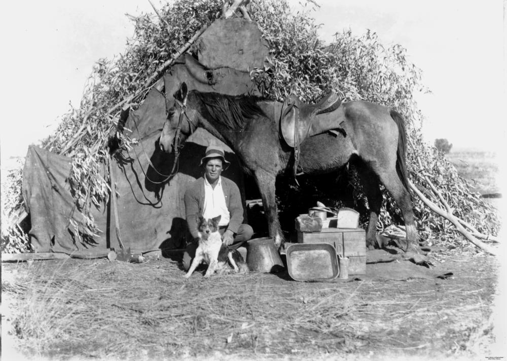 Bushman with his dog and horse outside a humpy, Hughenden district?, 1910-1920 The humpy appears to be made of vegetation and canvas. Cooking utensils appear at the entrance to the shack.